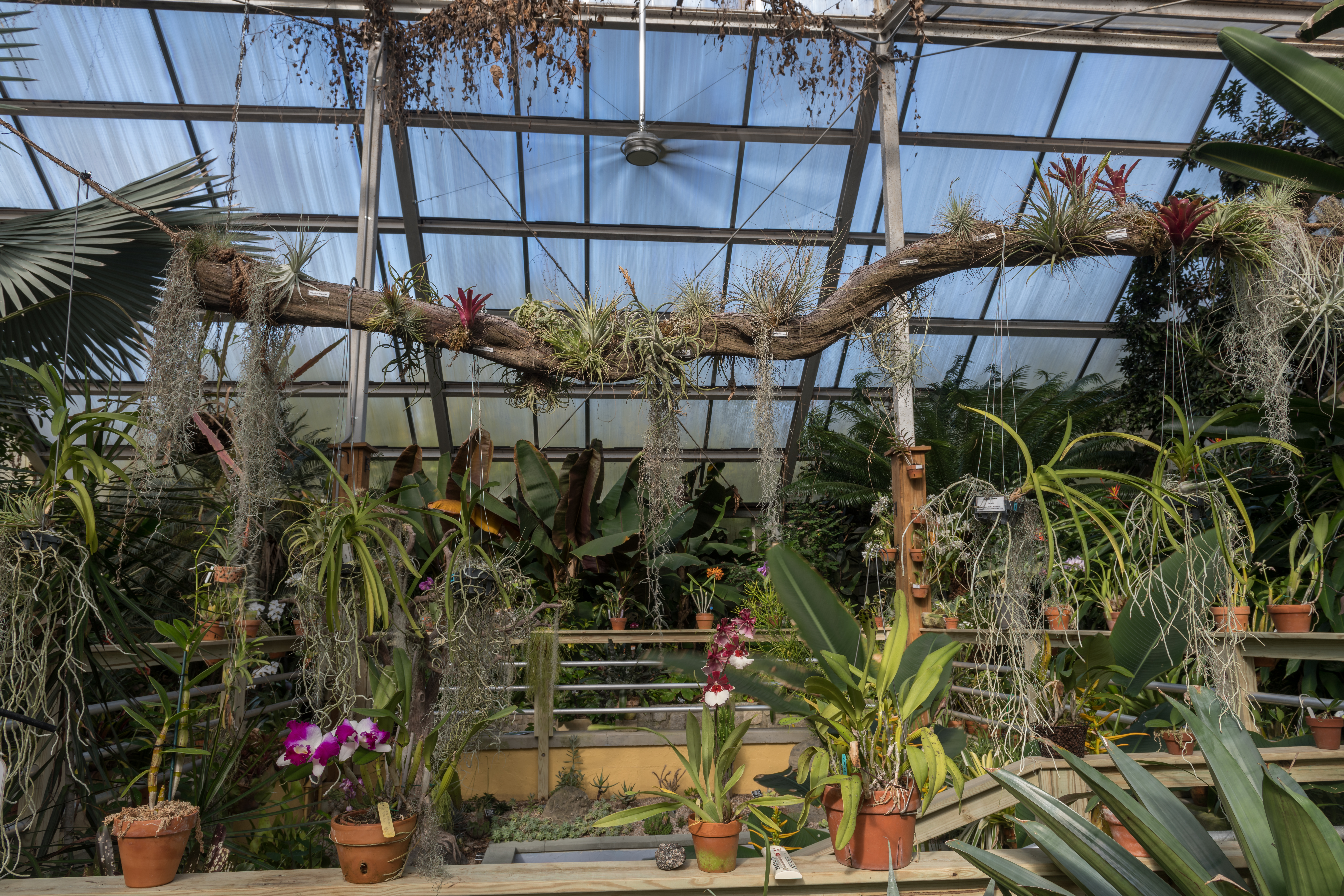 Xerophytes, plants that need little water, on the log just below the spinning fan in the Tropical Greenhouse, Norfolk Botanical Garden, Norfolk, Virginia.